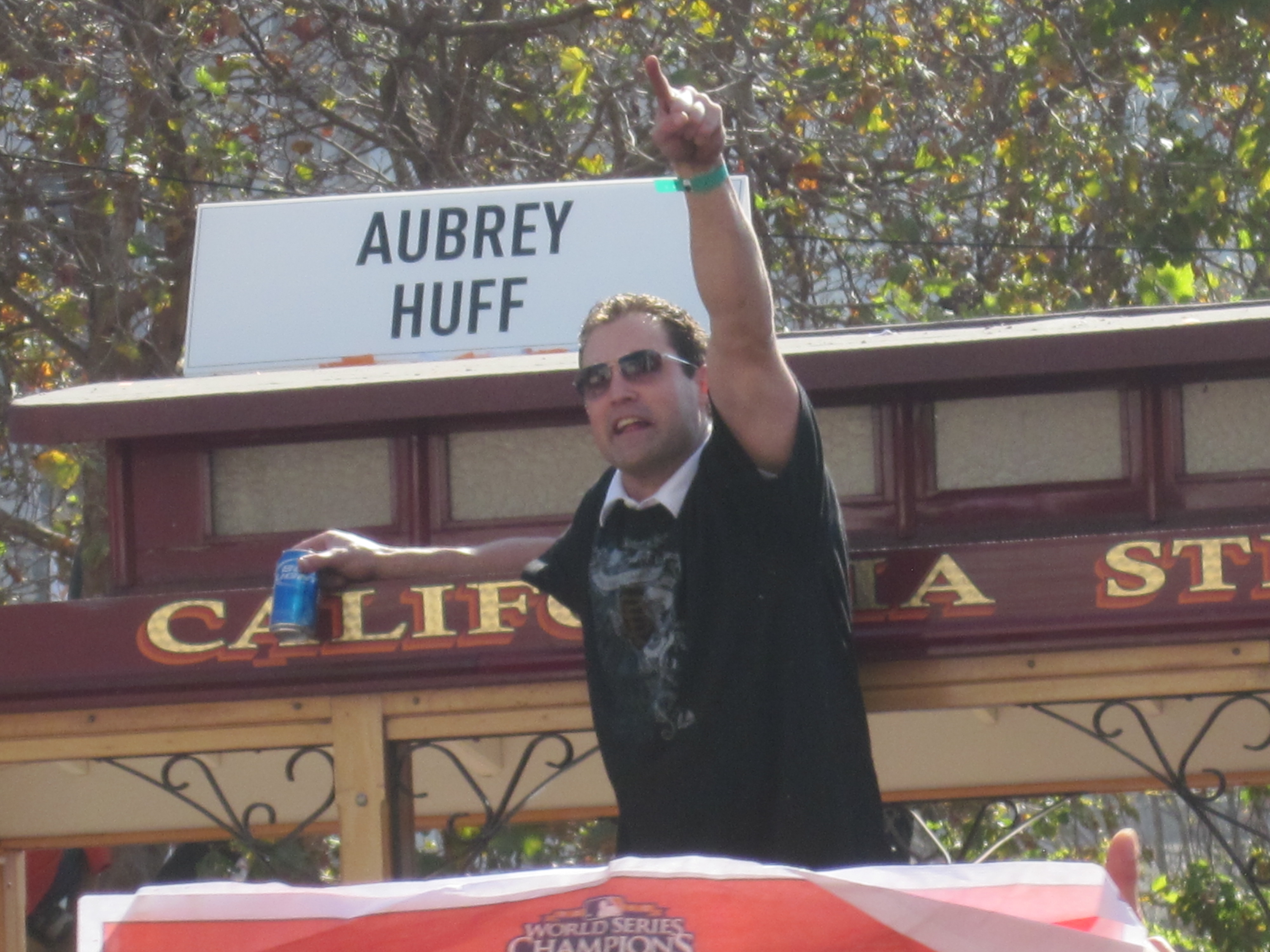 San Francisco Giants outfielder Pat Burrell at the 2010 World Series victory parade in San Francisco, two days after the Giants won the World Series.